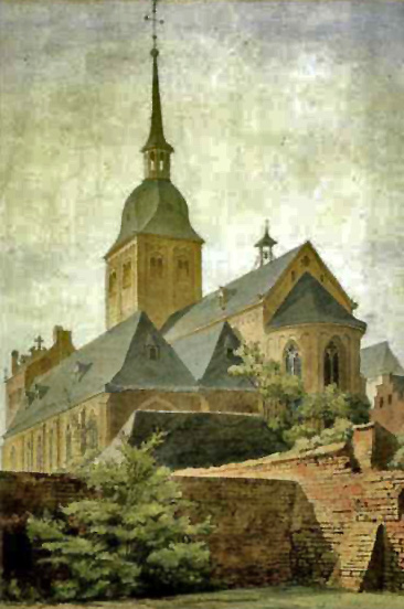 St. Johann Baptist in the 19th century, Cologne